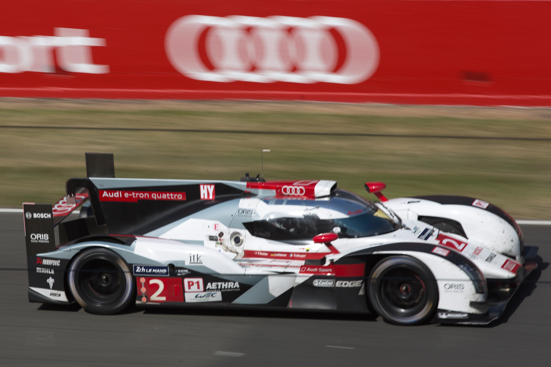 The No. 2 Audi R18 e-tron quattro at the 2014 24 Hours of Le Mans